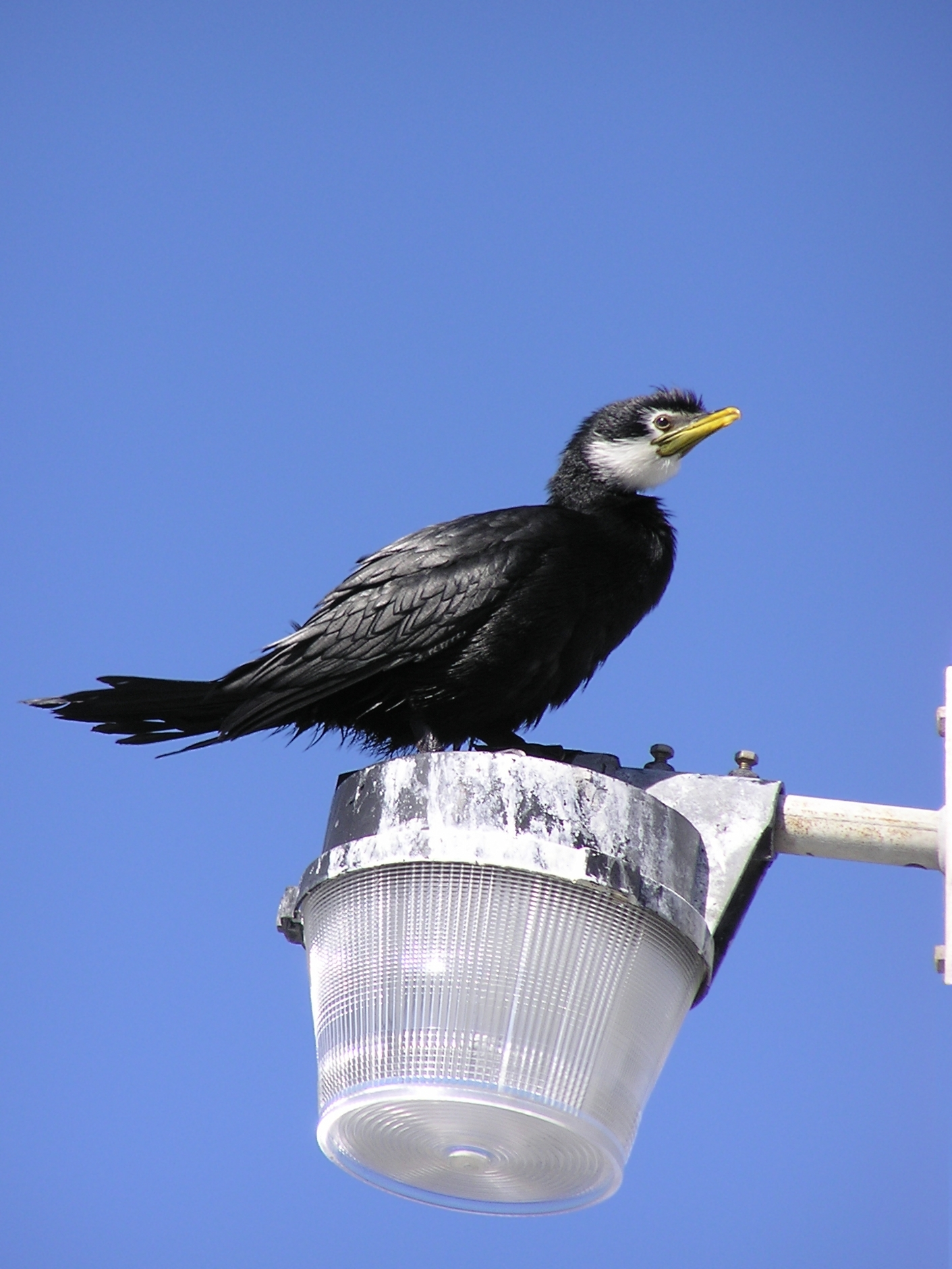 Little Pied Shag near Petone beach, Wellington Harbour, Wellington, New Zealand.